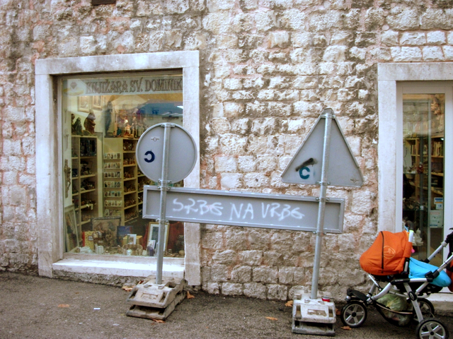 Virulent Serbophobia: "Srbe na vrbe" i.e. "Hang Serbs from Willow Trees" written in 2010 on the back of the traffic sign in Split, Croatia